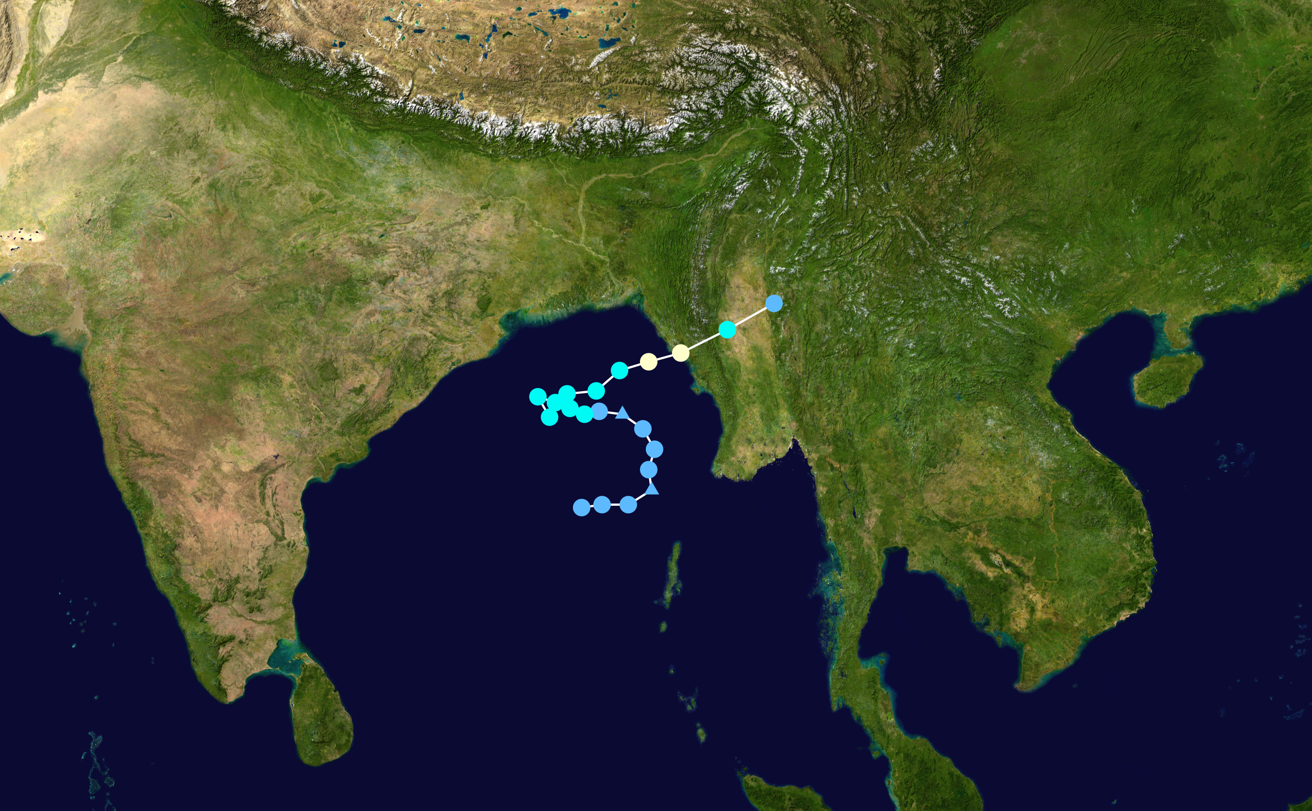 Cyclone 02B 2004 track. Uses the color scheme from the Saffir-Simpson Hurricane Scale.